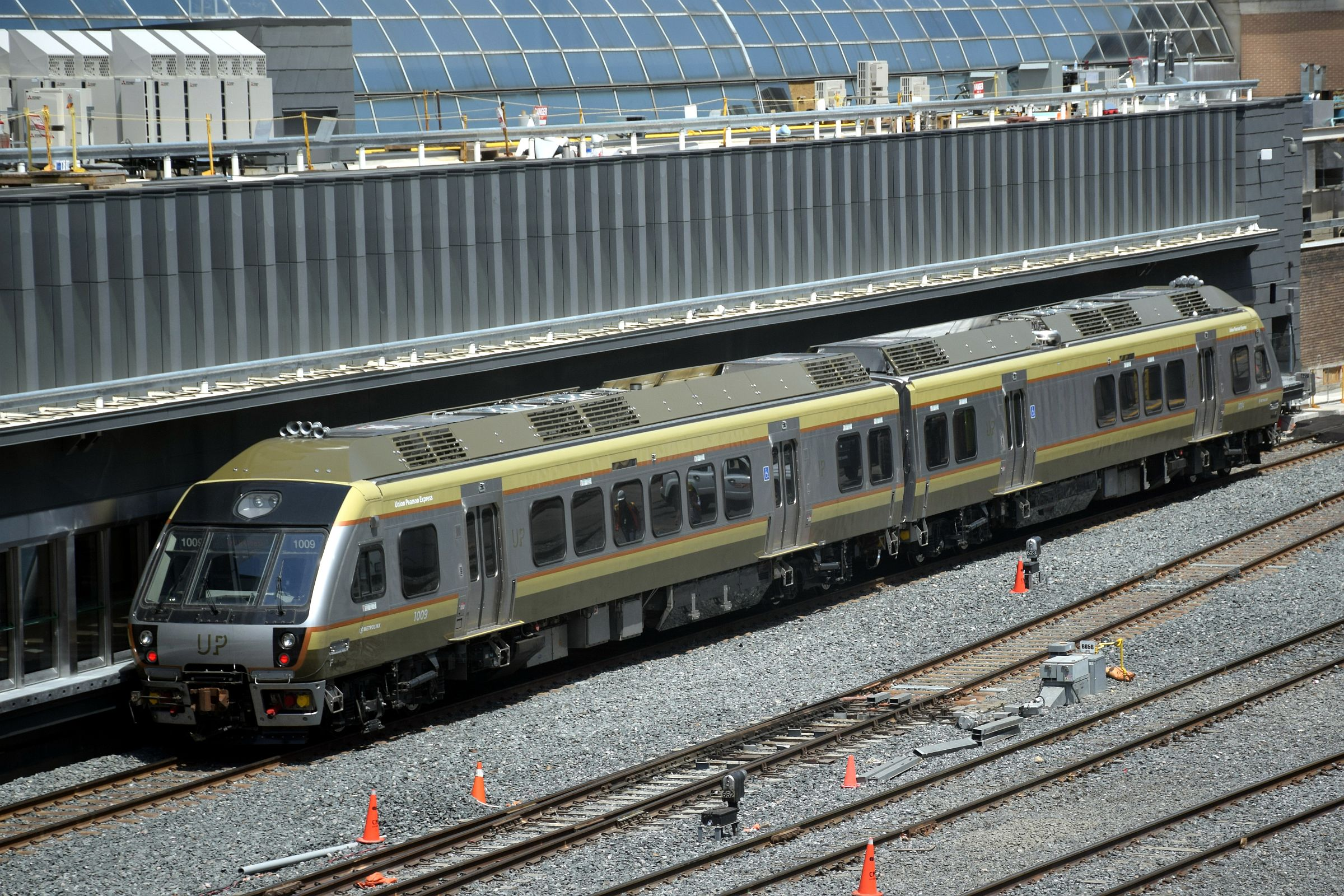 Union Pearson Express at Union Station in Toronto